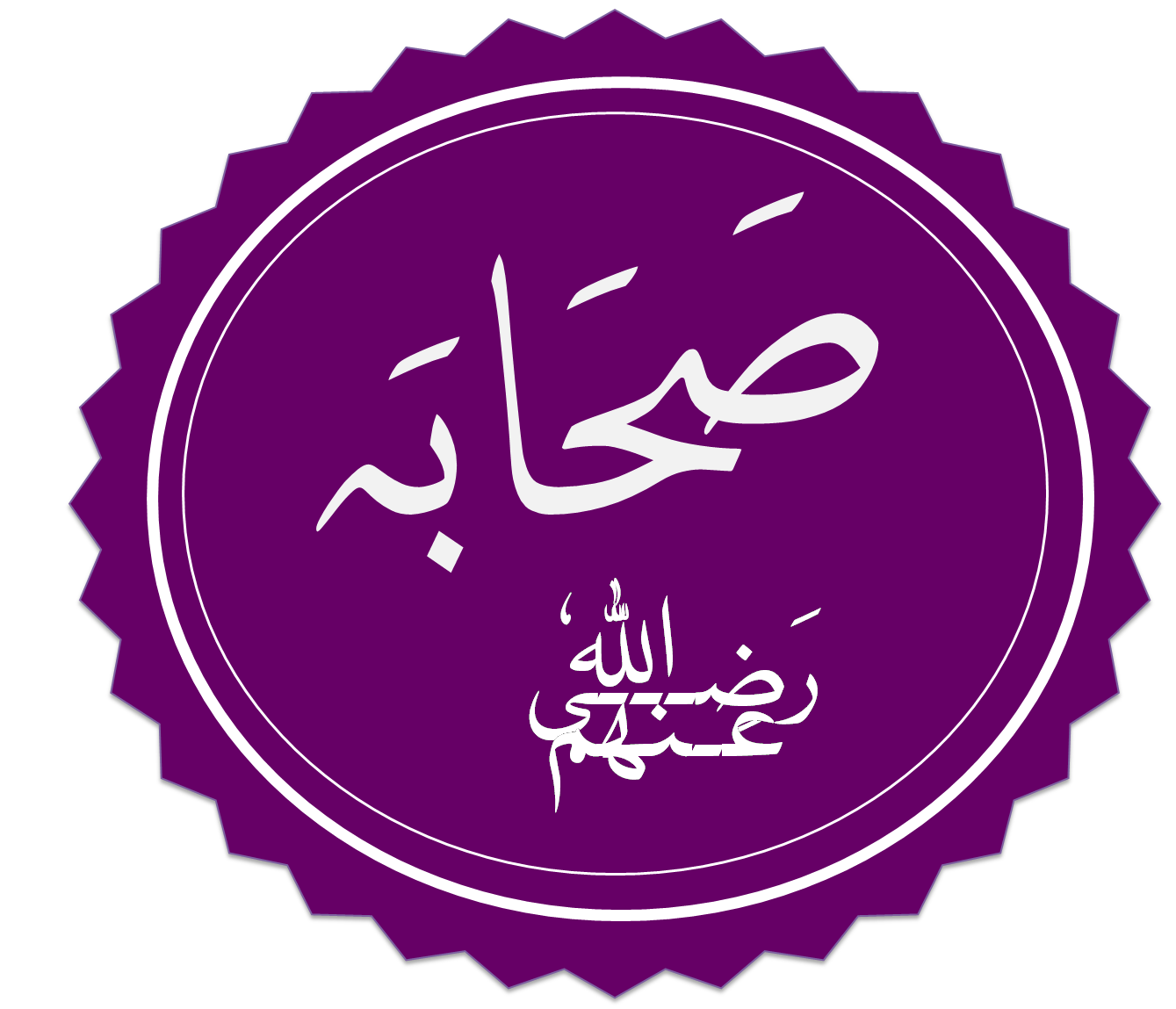 the Arabic word "Sahab" with small islam phrase "Raziallahu anhum" written in Quranic script.